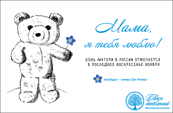 открытка ко Дню Матери